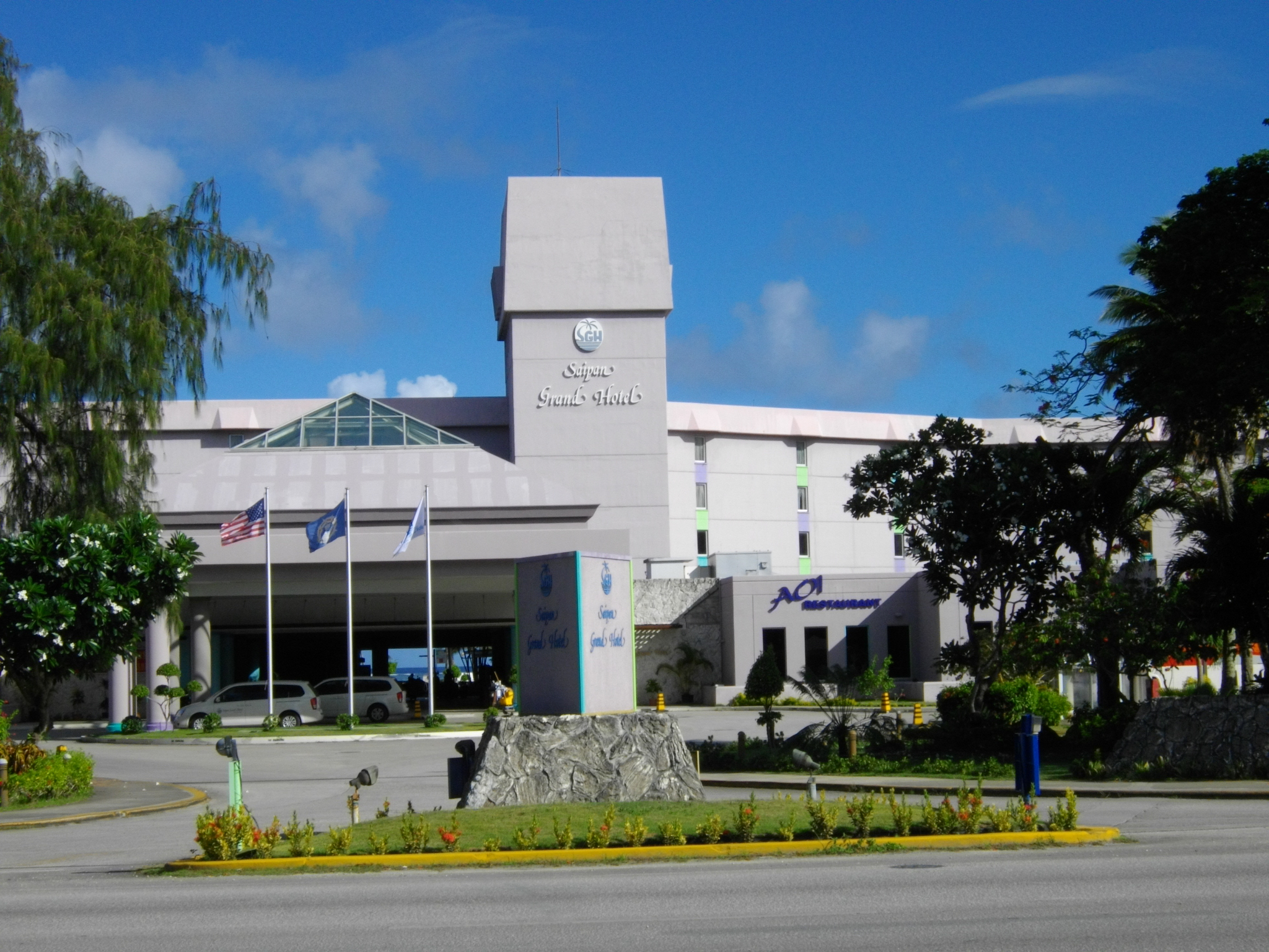 Saipan Grand Hotel